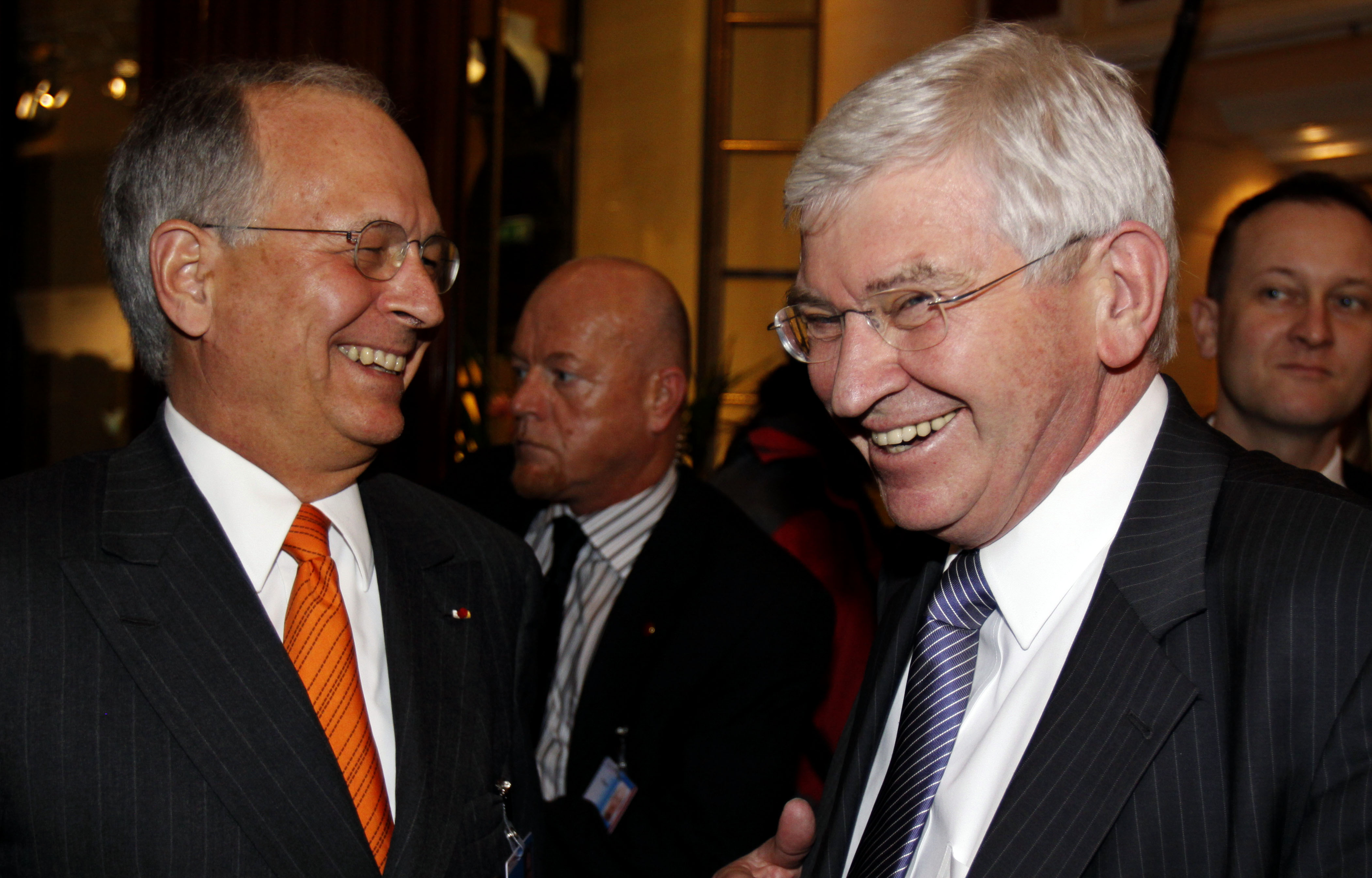 45th Munich Security Conference 2009: Ambassador Wolfgang Ischinger(le), and Ernst Uhrlau (ri), President, Federal Intelligence Service, Berlin.